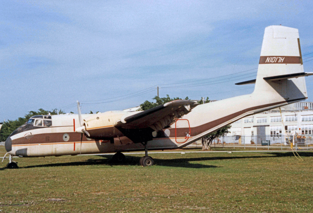 De Havilland Canada DHC-4 Caribou N1017H of Chieftan at Opa Locka Airport near Miami in 1989